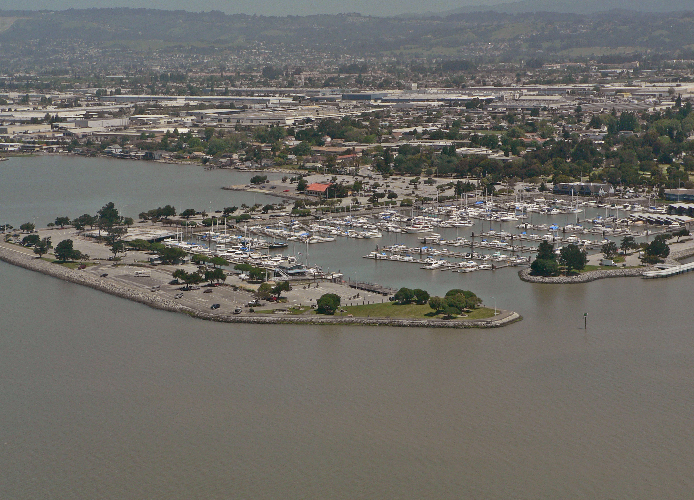 San Leandro Marina; San Leandro, California Viewpoint location: Flight 334 from Seattle/Tacoma, WA to Oakland, CA Alaska Airlines Datum: WGS84/NAD83 Viewpoint elevation: ~50 m View direction: Northeast Date and time: 2006-05-09 12:20:29 PDT Camera: Panasonic Lumix DMC FZ5